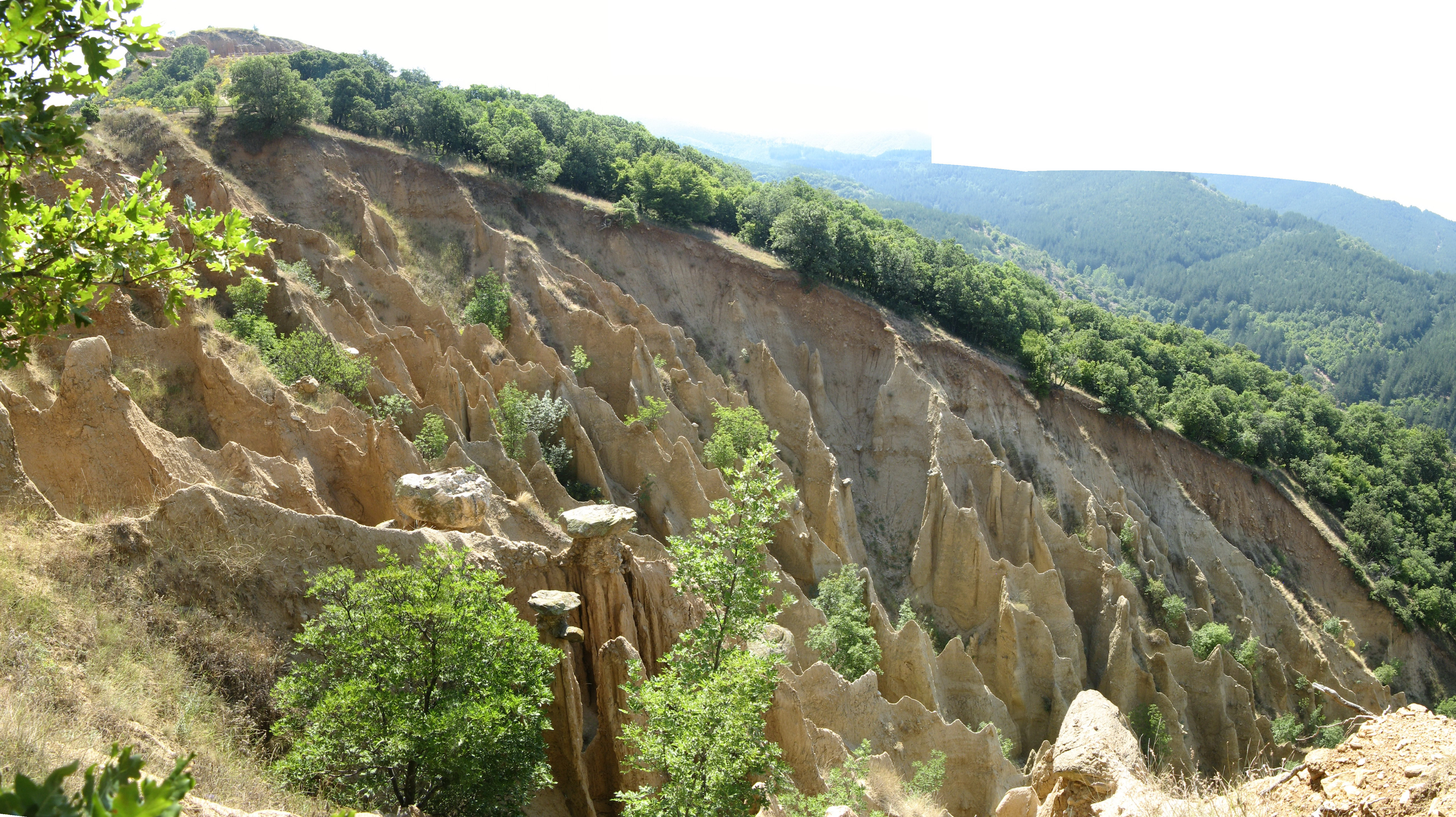 panorama stobski piramidi